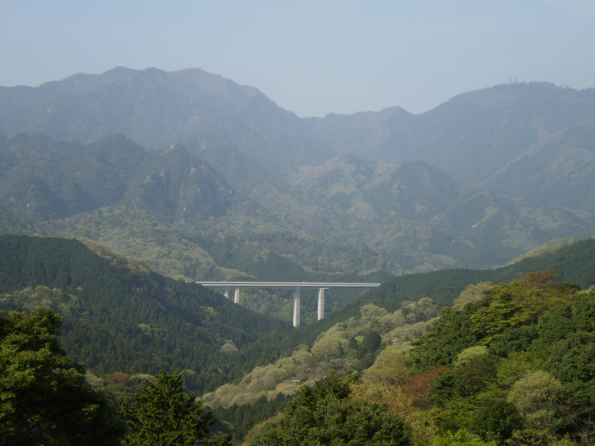 The Kirigataki Bridge on the Shin-Meishin Expressway, seen from Asakayamacho, Kameyama City, Mie Prefecture, Japan